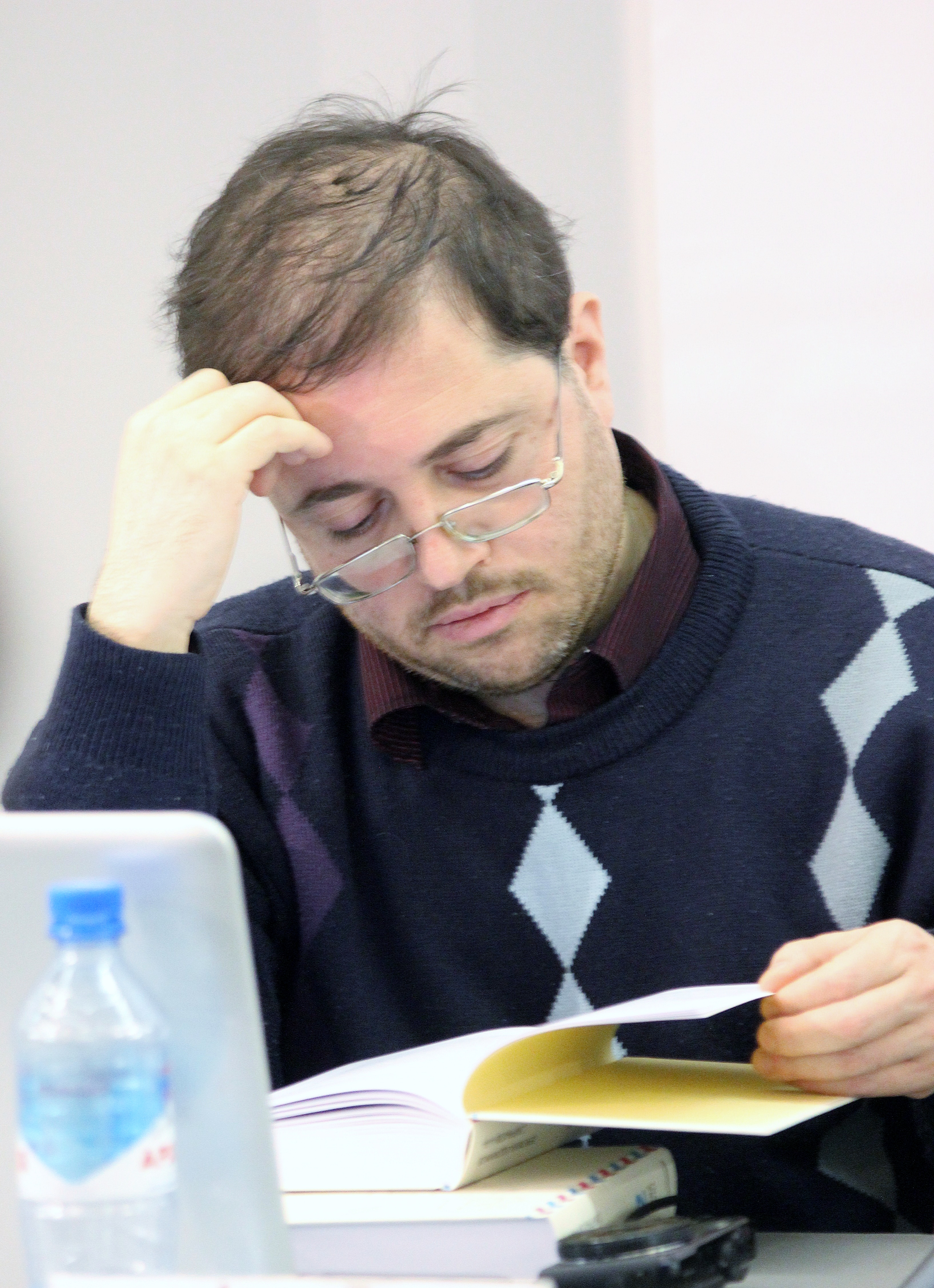 Israeli cultural sociologist and political scientist Alek D. Epstein at the 20 Moscow International Fair Non/fiction 2018